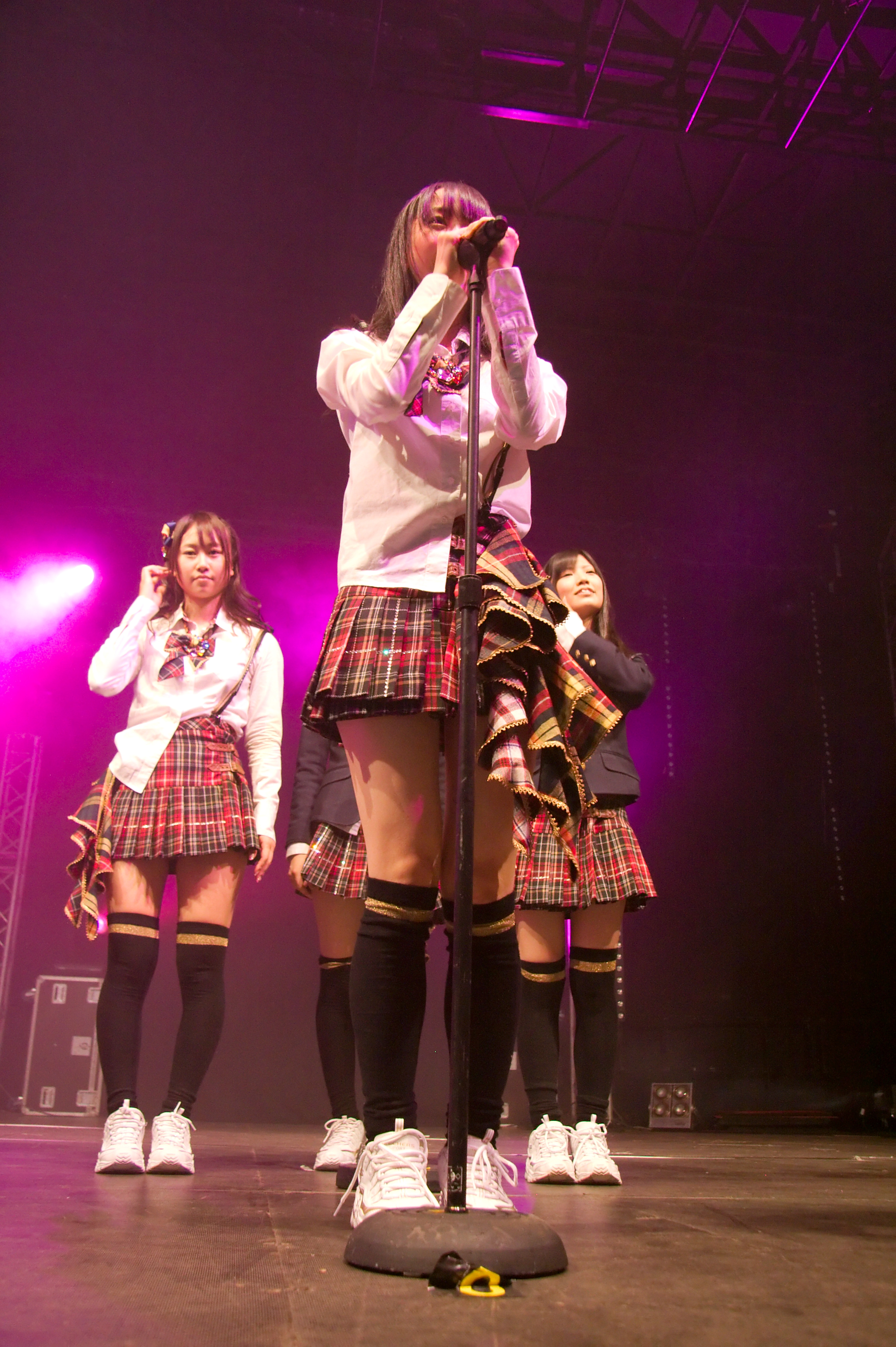 AKB48 live at Japan Expo 2009 (Paris, France).